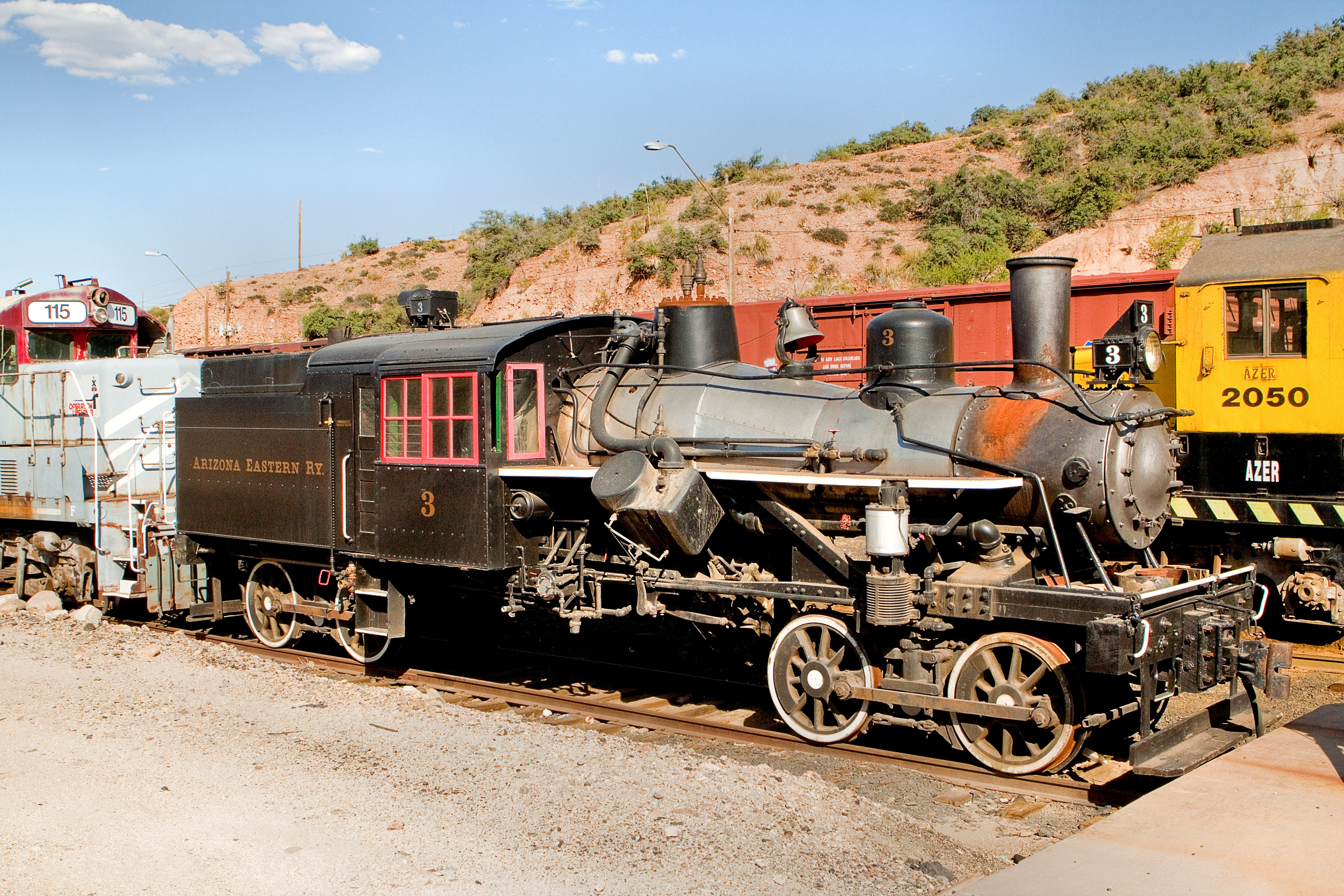 Arizona Eastern Heisler Steam Engine The Heisler was located in AZER's railyard in Miami, AZ.